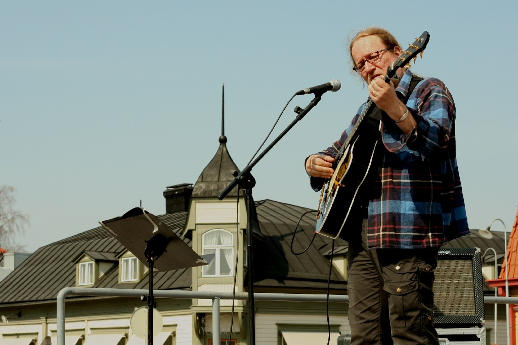 Finnish gospel artist Jaakko Löytty